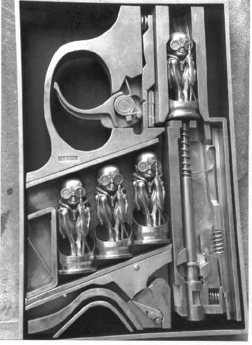 "Birth Machine", by H.R. Giger. Photograph taken by Ojw of a sculpture on display outside the Museum H. R. Giger in Gruyères